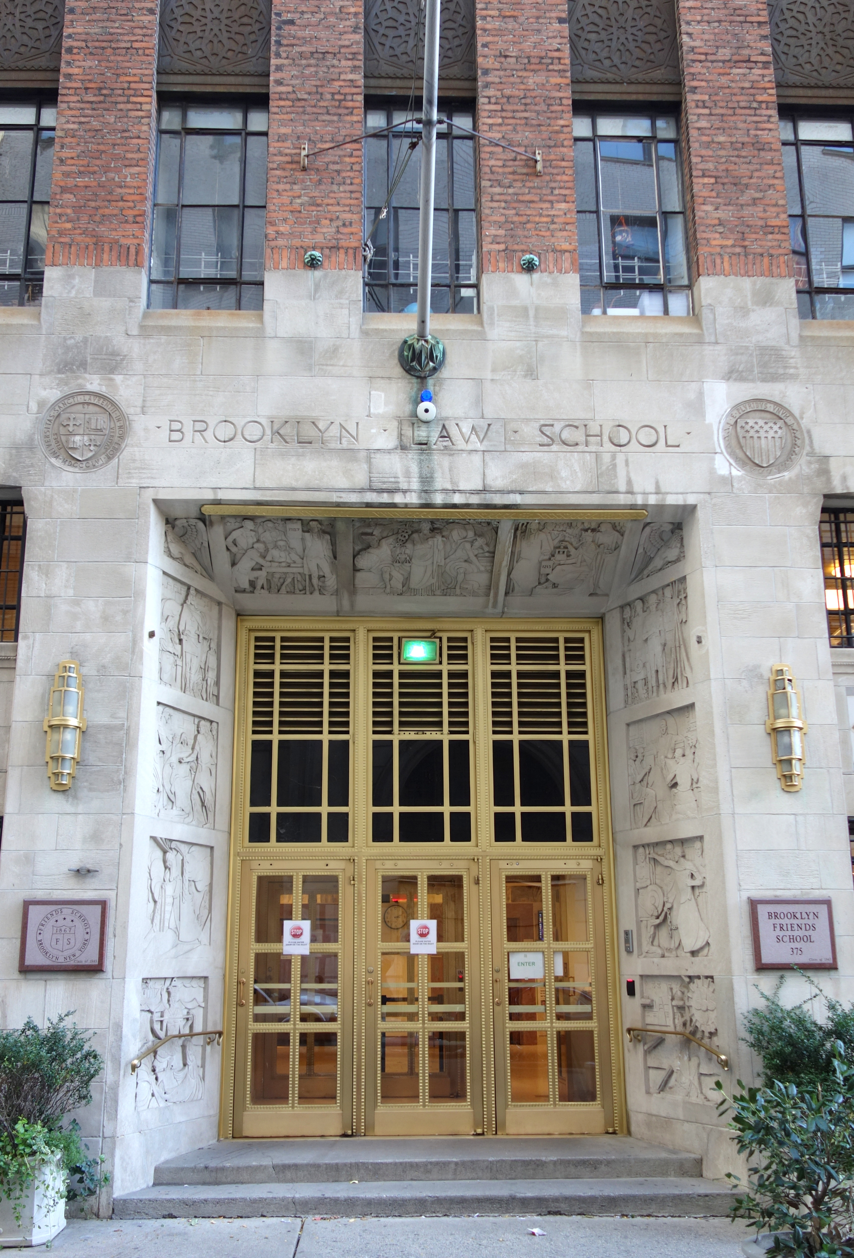 Brooklyn Friends School, formerly the Brookly Law School - Brooklyn, New York, USA.